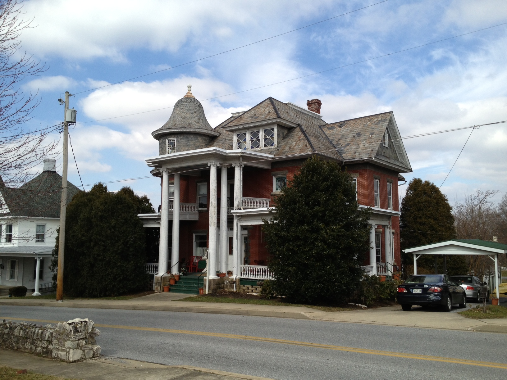 Clyfford Still New Windsor Maryland house. Photo is taken looking west.